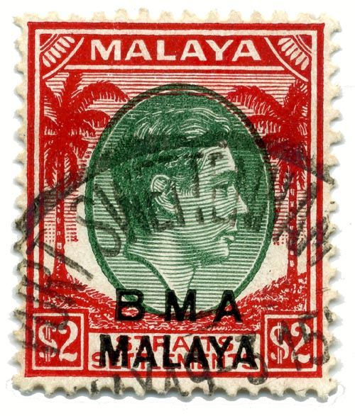 Scan of Straits Settlements 2-dollar stamp of 1945